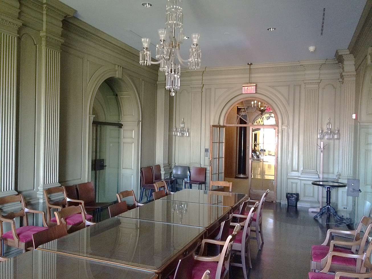 Humanities Center on the sixth floor of the Cathedral of Learning on the campus of the University of Pittsburgh